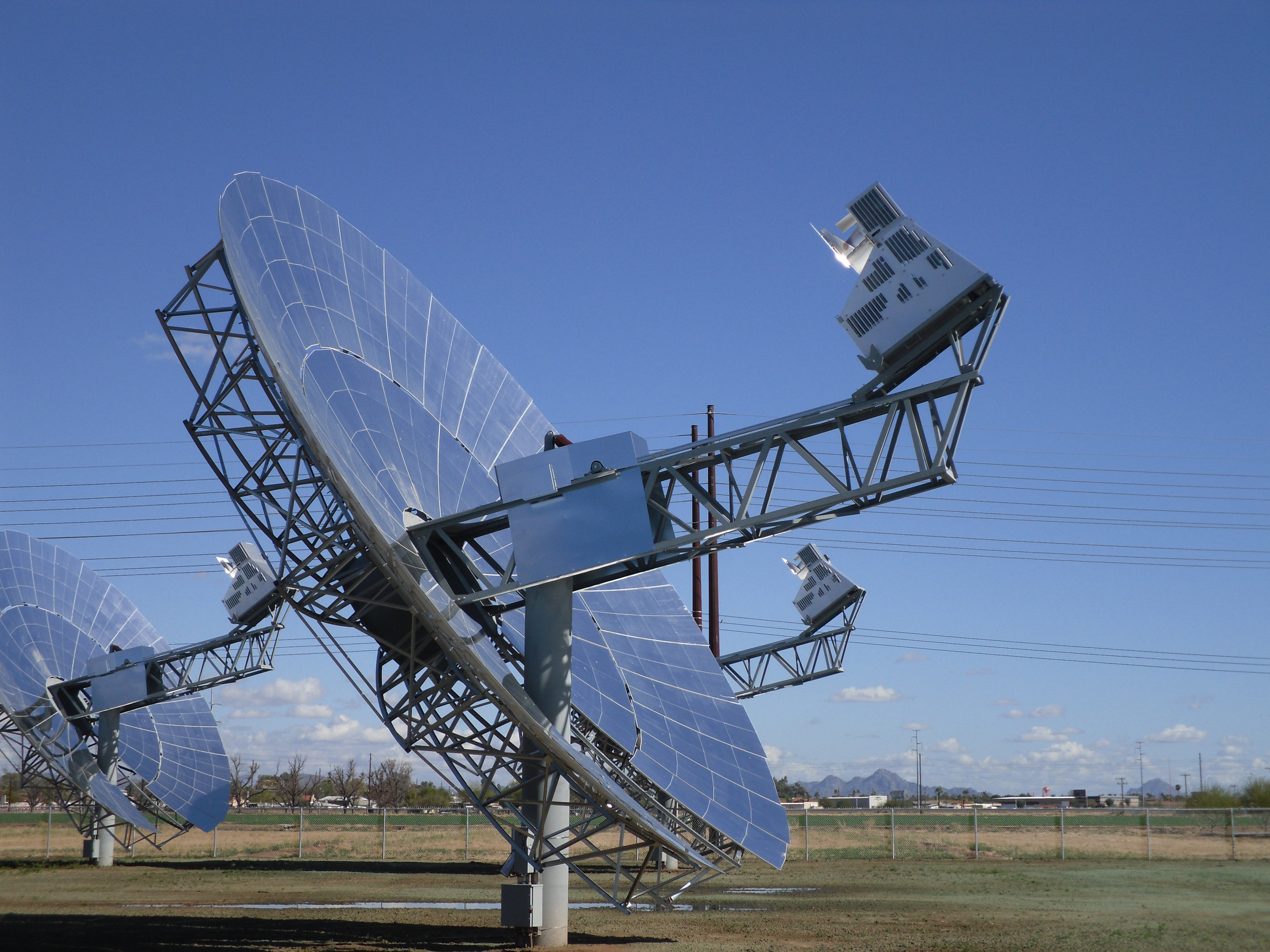 Maricopa Dish-Stirling plant